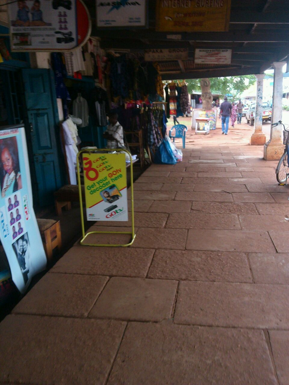 street in Jinja